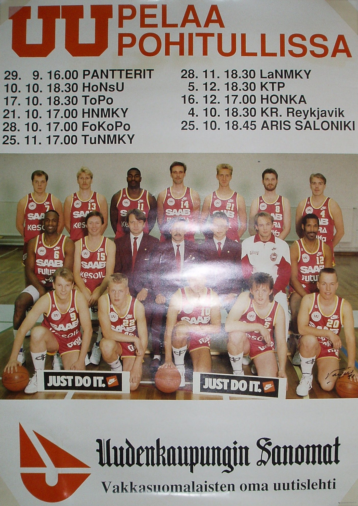 UU's ad in the 80's